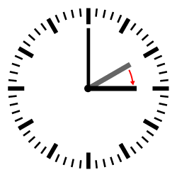 Time change at the start of Daylight Saving Time